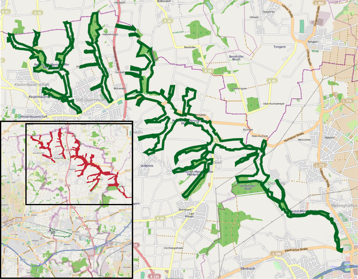 Kirchlengern - Nature reserve Rehmerloh-Mennighüffer Mühlenbach - overview map Number and borders of nature reserves are subject to frequent change. In order to facilitate reproduction of this map from openstreetmap, the following data is stored here: export boundaries: north: 52.263; west: 8.597; east: 8.716; south: 52.206; mapnik svg, scale 1:40.000 nature reserve boundary stroke weight 10.0; nature reserve stroke color: R 5, G 102, B 36; municipality border stroke weight: as found